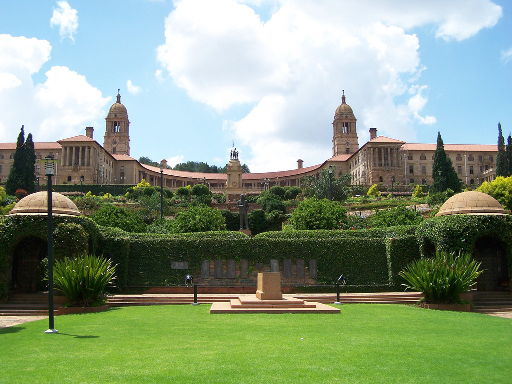 Union Buldings